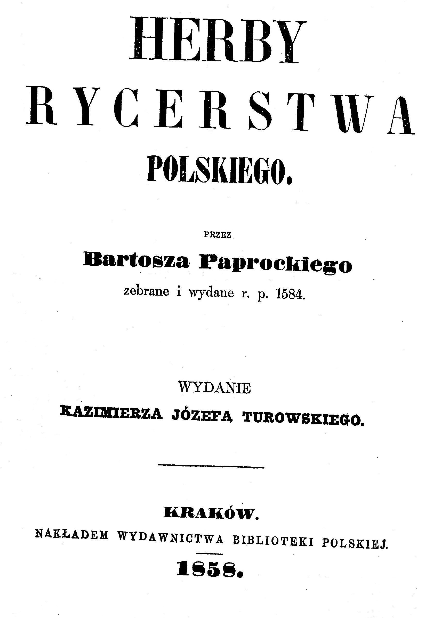 Herbarz - Paprocki